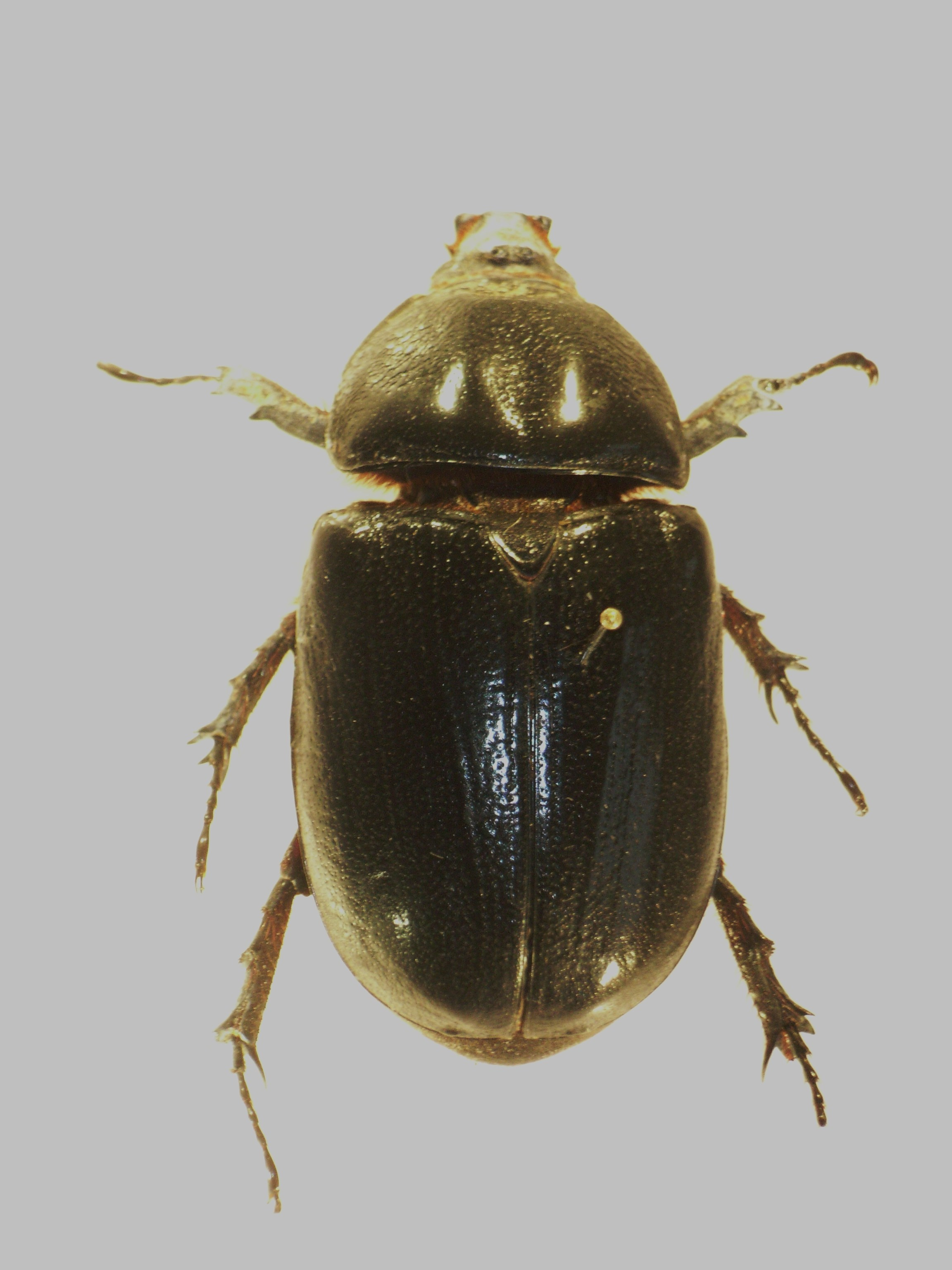 Scapanes australis solomonensis Sternberg, 1908 Scarabaeidae Dynastinae female Ex coll.Felix Stumpe